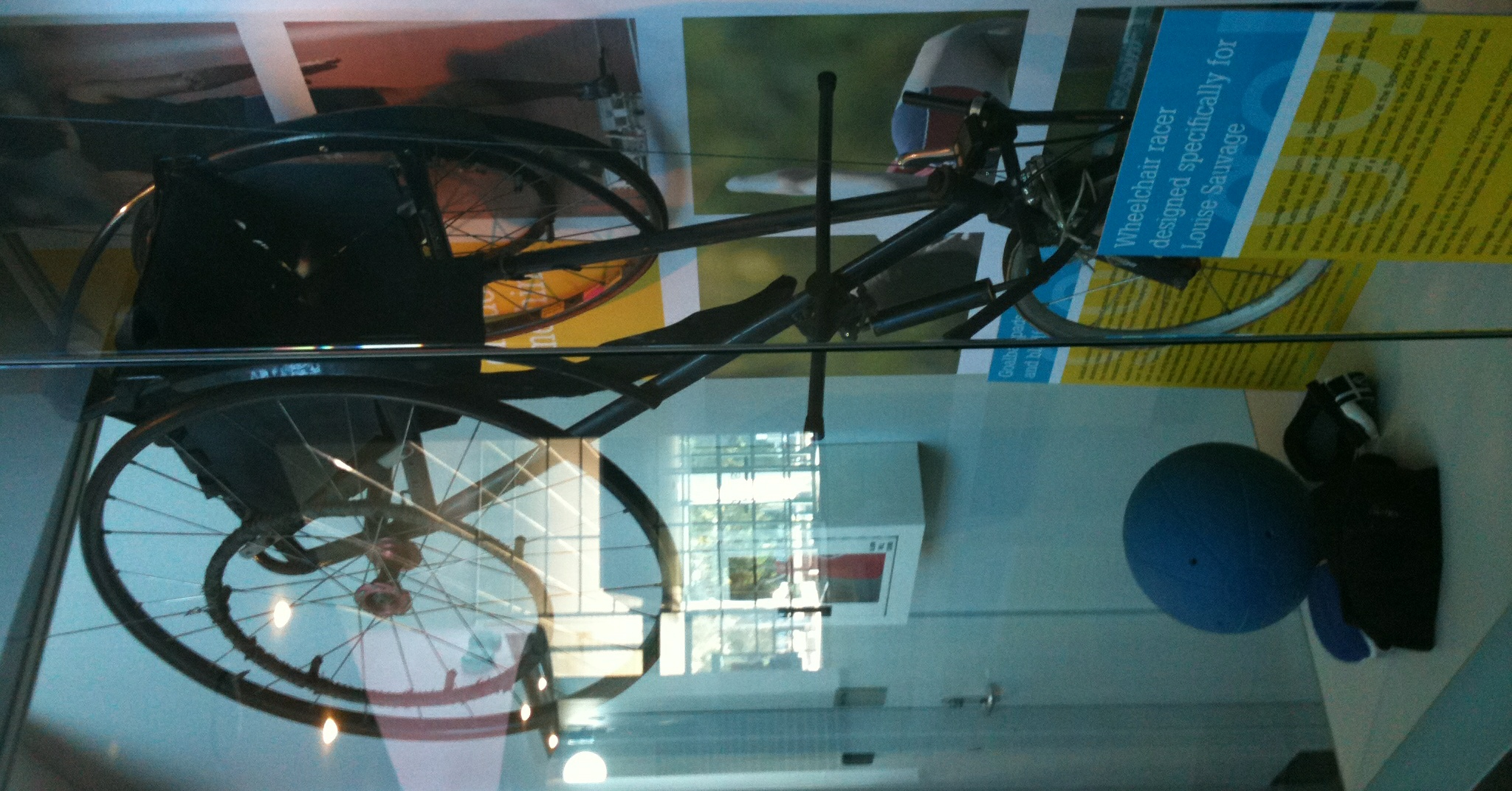 A wheelchair used by Louise Sauvage at the Paralympic games.